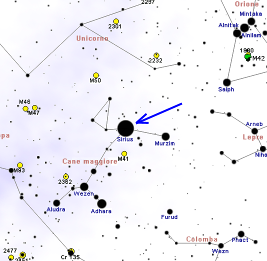 Sirius